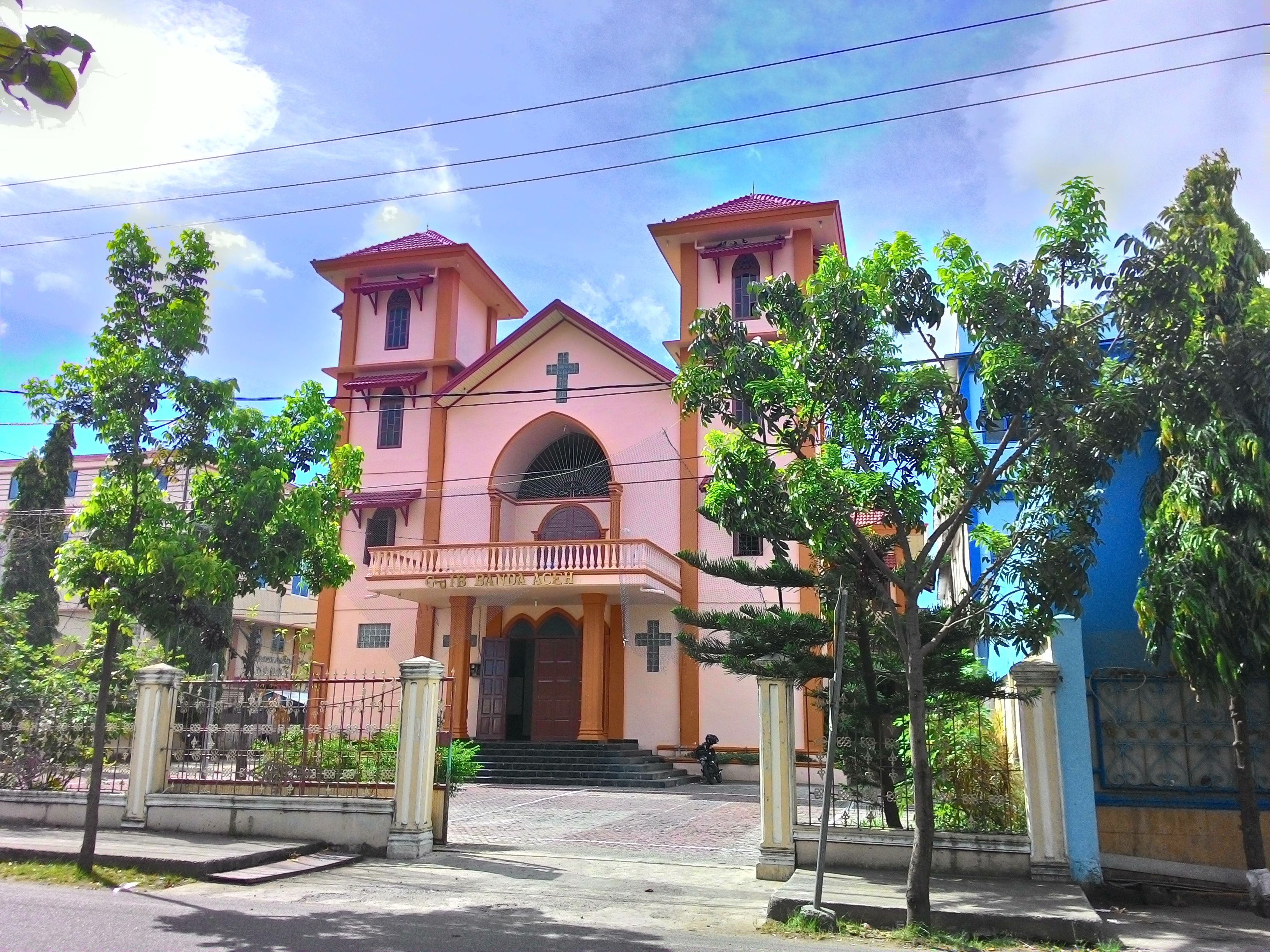 Protestant Church in Banda Aceh